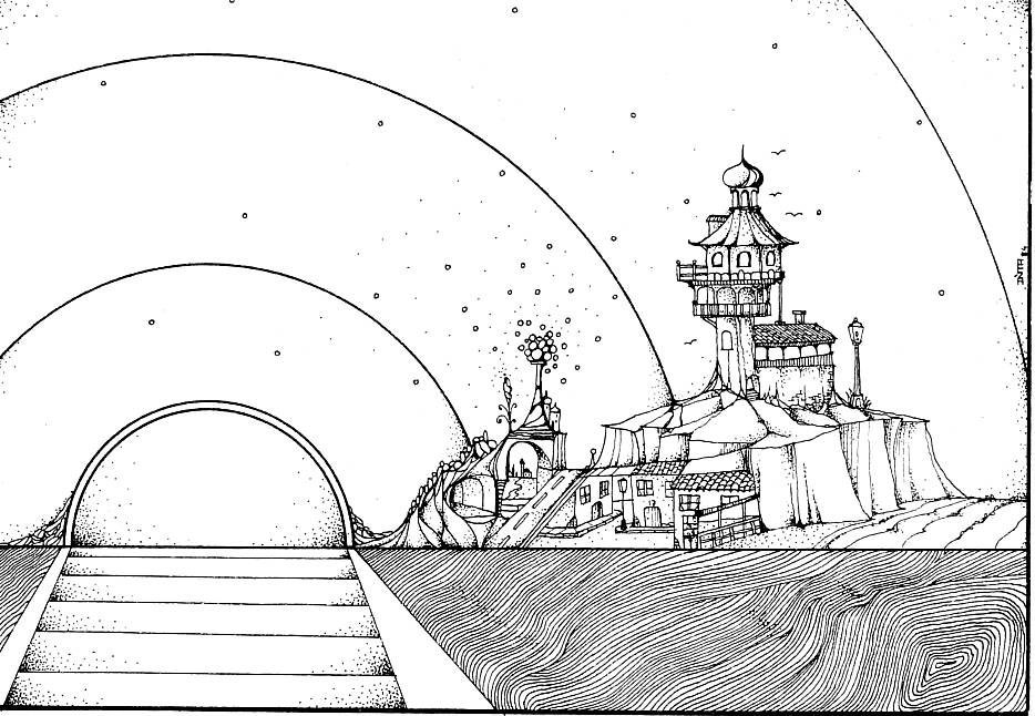 "Valinor" Castle (fantastic art). Work by Inta-Milartino for Wikimedia Commons.